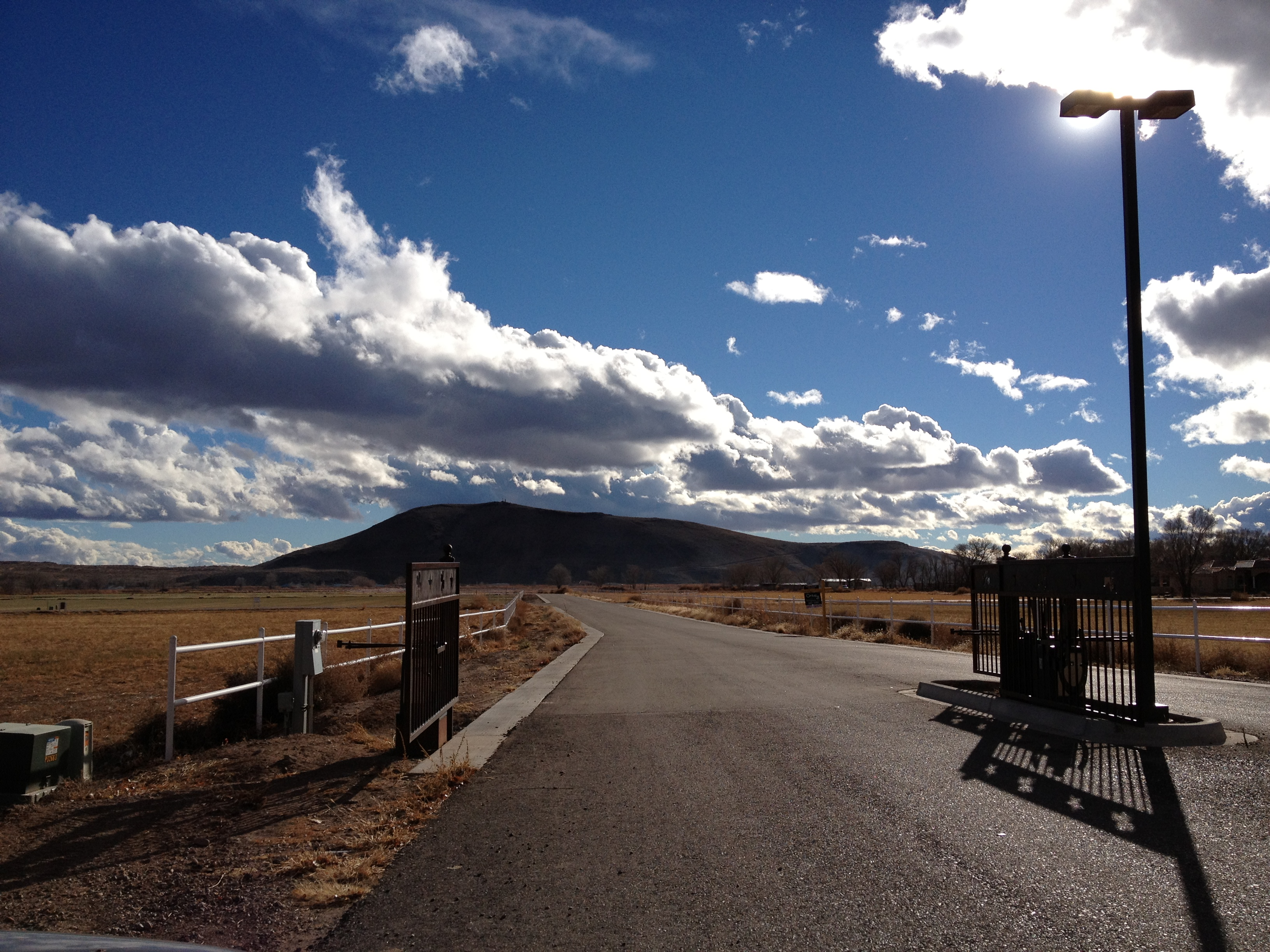 El Cerro Tome Site, 0.5 miles east of the junction of State Road 47 and Tome Hill Rd. Tome